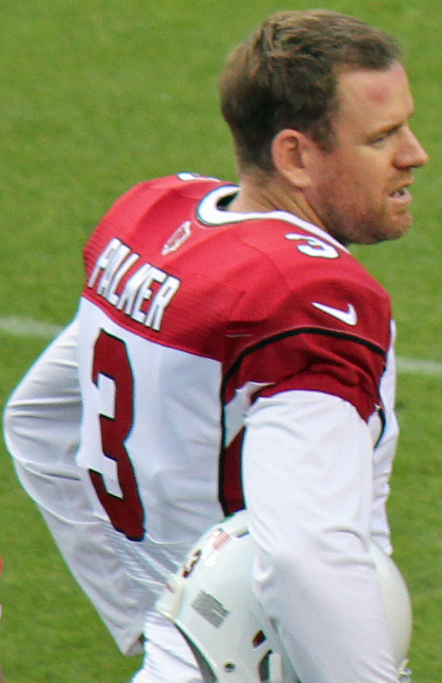 Carson Palmer, a player on the National Football league.